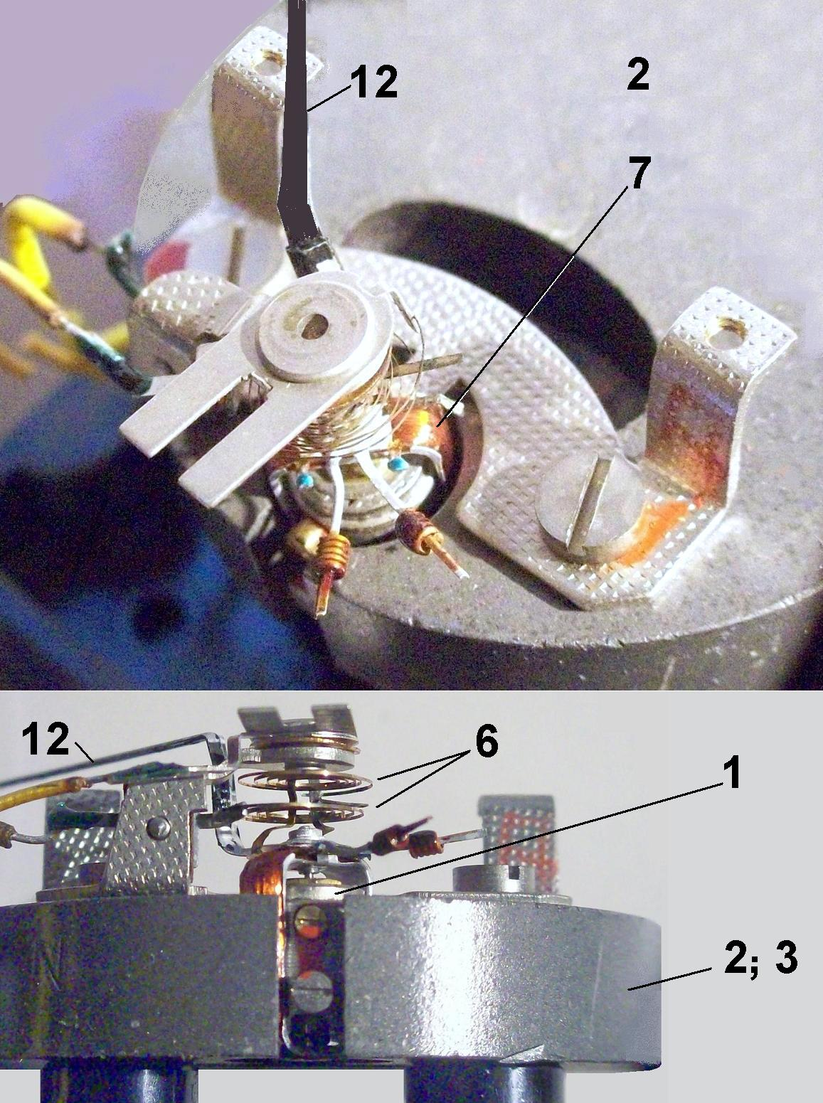 moving coil measuring instrument